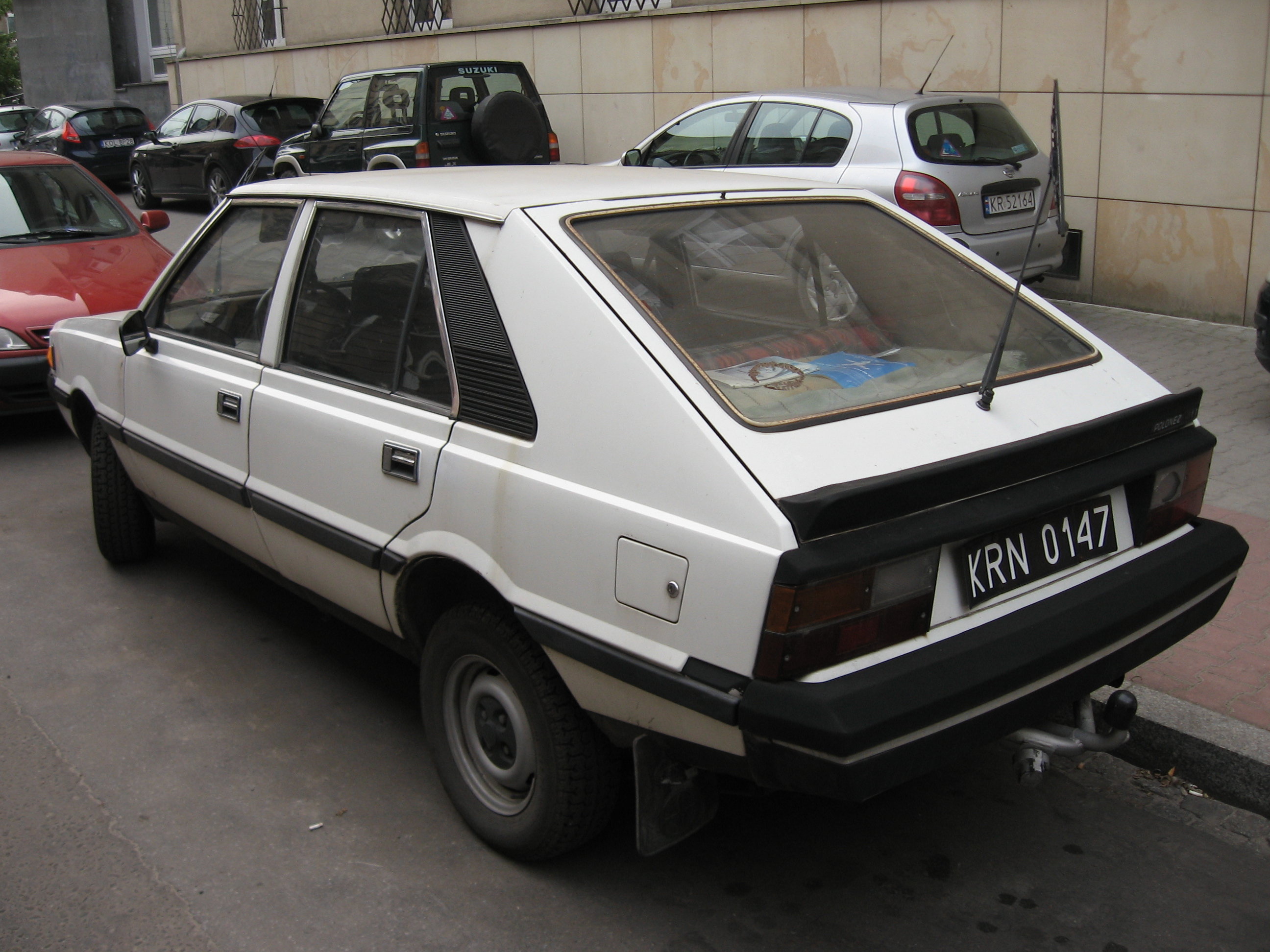 FSO Polonez MR'83 1.5 L car on Czysta street in Kraków, Poland.